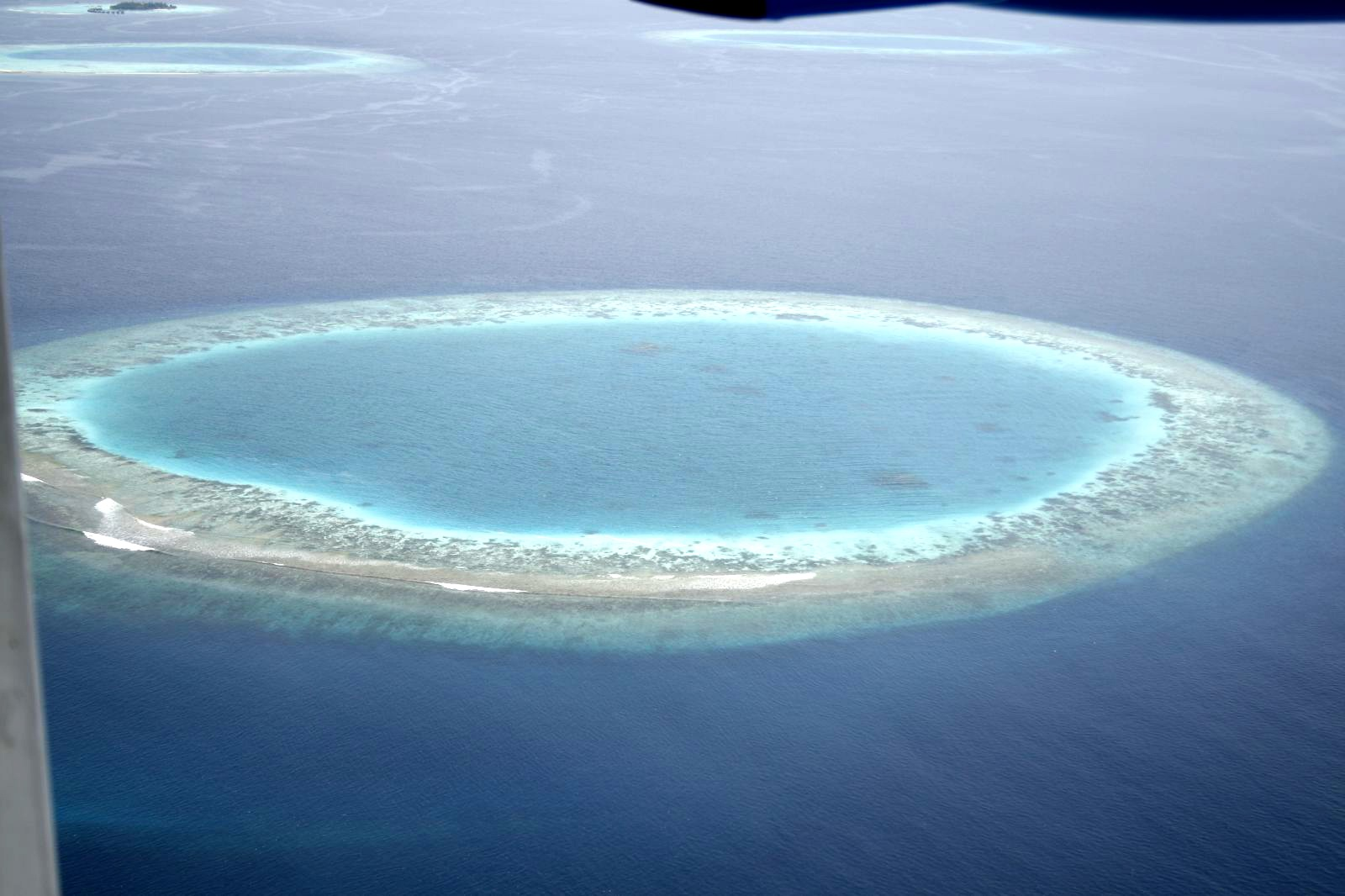 Maldives islands. on flying with air-taxi, by trans maldivian